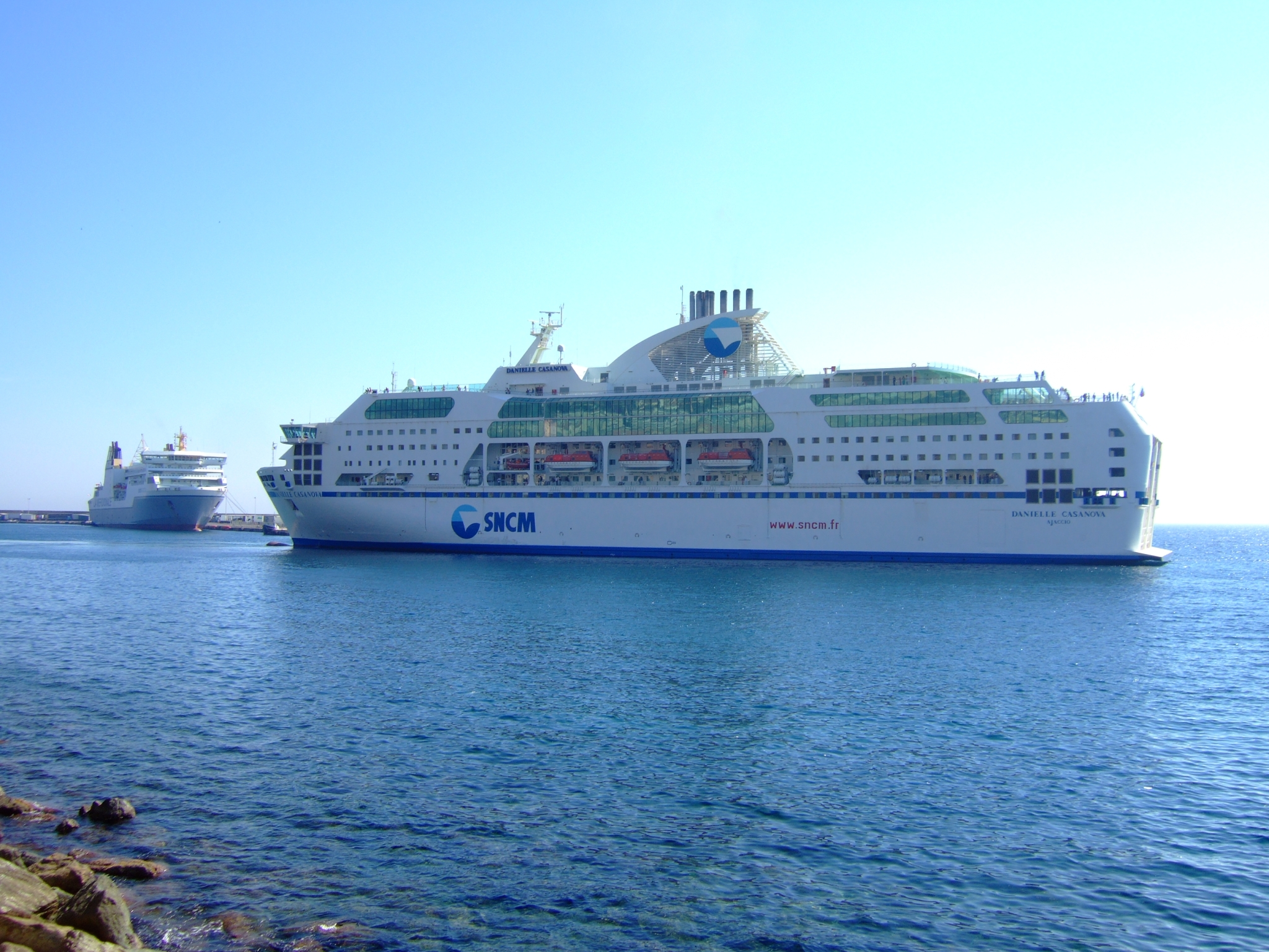 Ferry Mv Danielle Casanova from SNCM company working to leave the Bastia port. Corsica, France.The second Ferry is the Mv Kalliste (IMO number: 9050618) from CMN company.